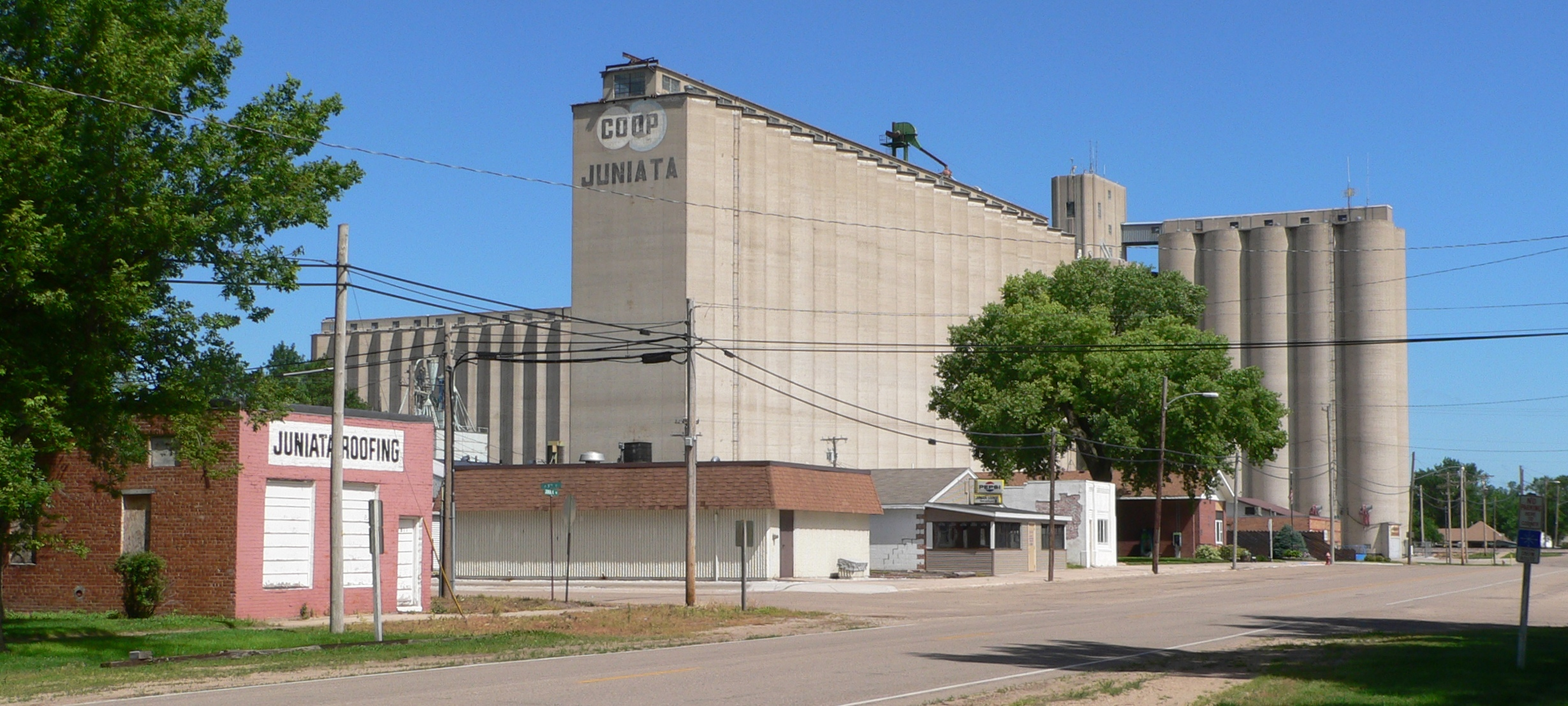 Downtown Juniata, Nebraska: west side of Juniata Avenue.